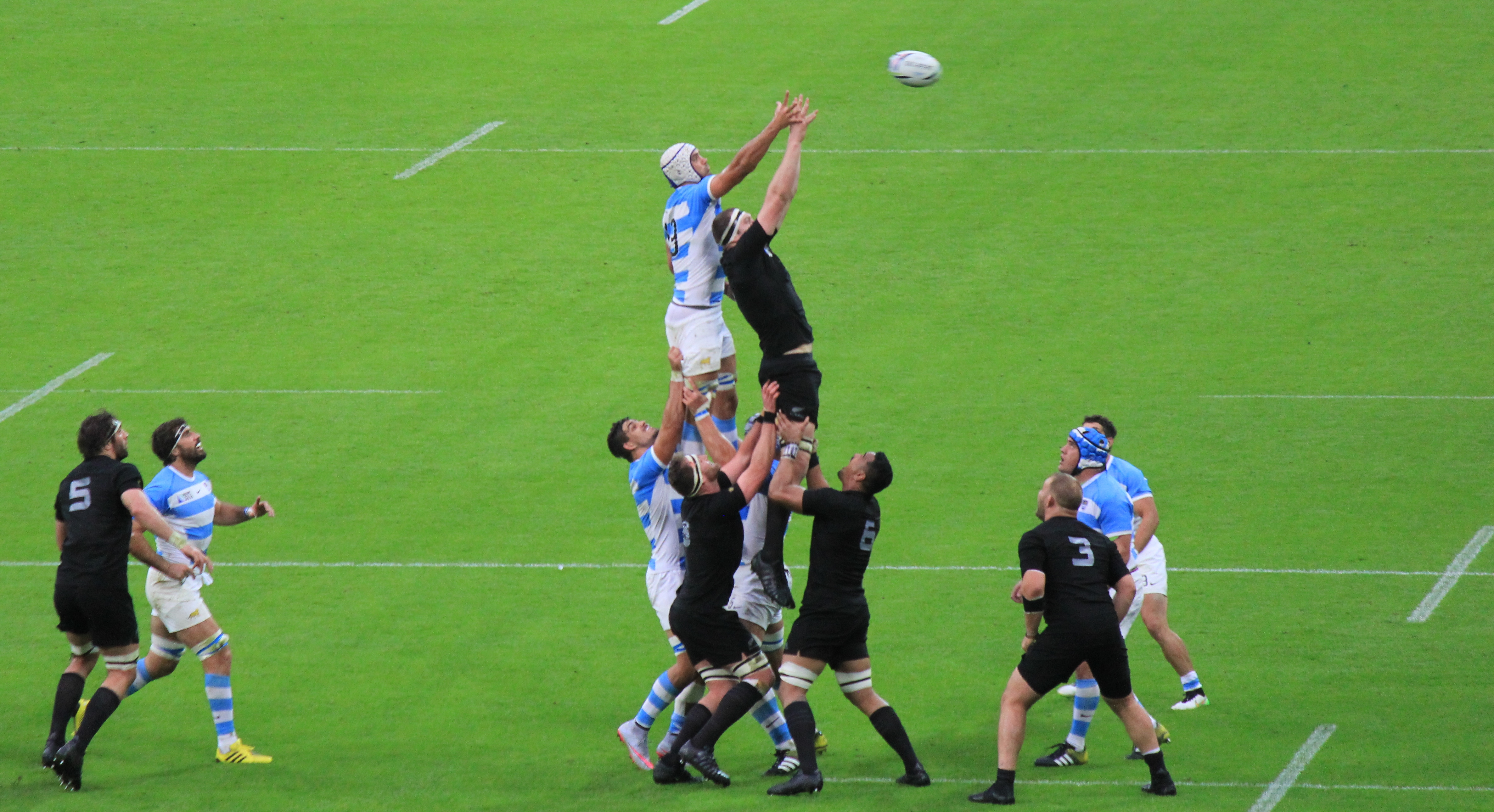 15-09 RWC New Zealand vs Argentina 080